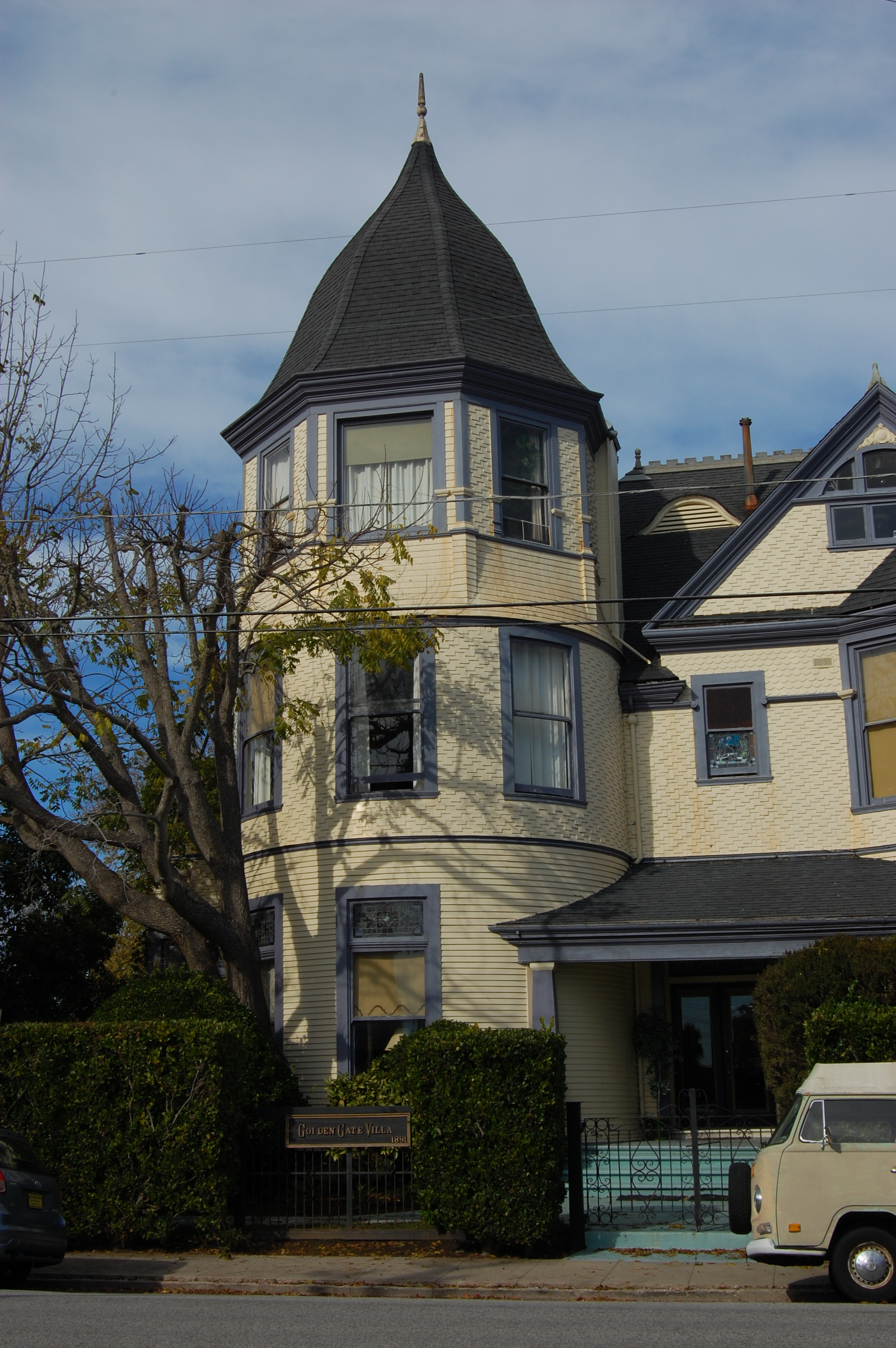 Golden Gate villa. 924 Third Street. Santa Cruz, California, USA